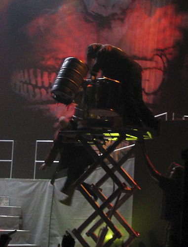 Sid Wilson & Shawn Crahan of the band Slipknot performing live in Wisconsin in 2005.